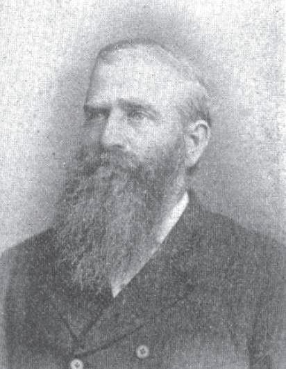 Photo of Charles Ora Card, the founder of the town of Cardston, Alberta, the first Mormon settlement in Canada. He has been referred to as "Canada's Brigham Young".